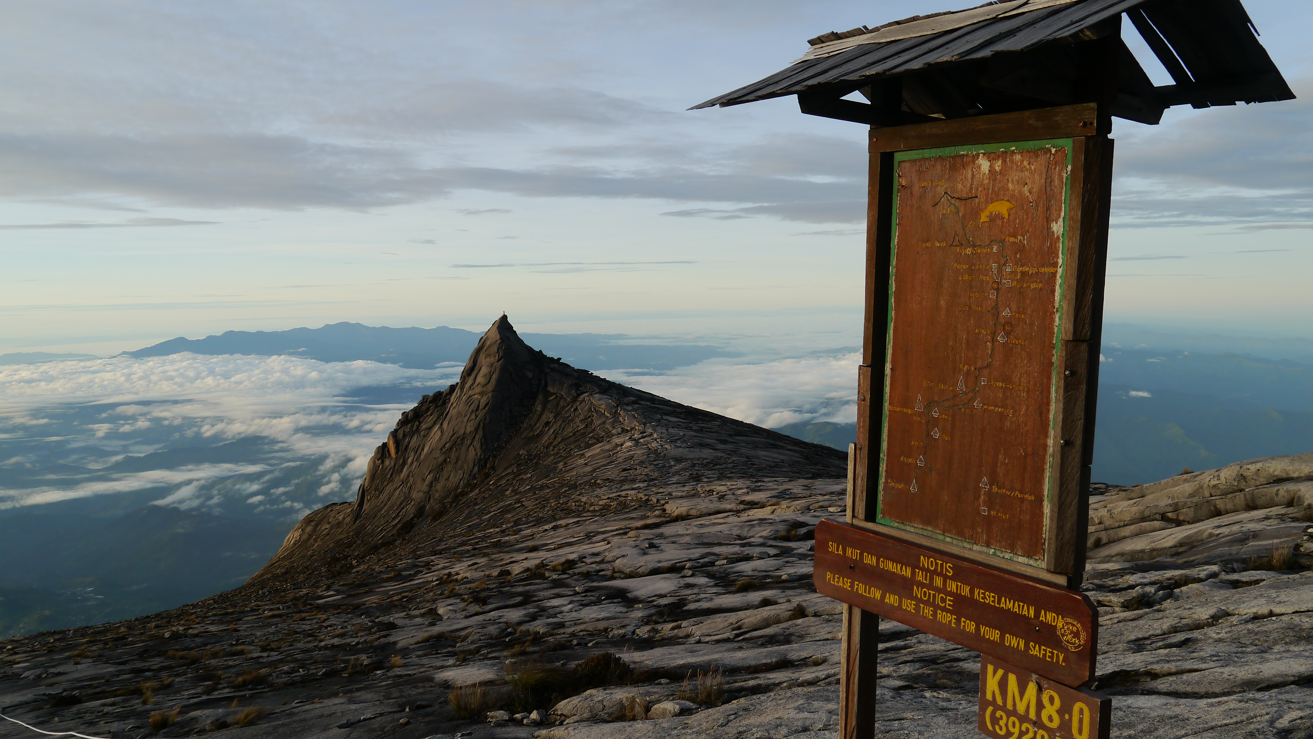 South Peak signal in Mount Kinabalu. Kinabalu NP, Sabah, Malaysia.